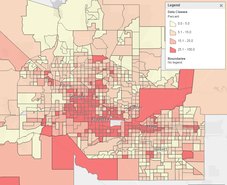 Percent of population living in poverty by census tract across metro phoenix.